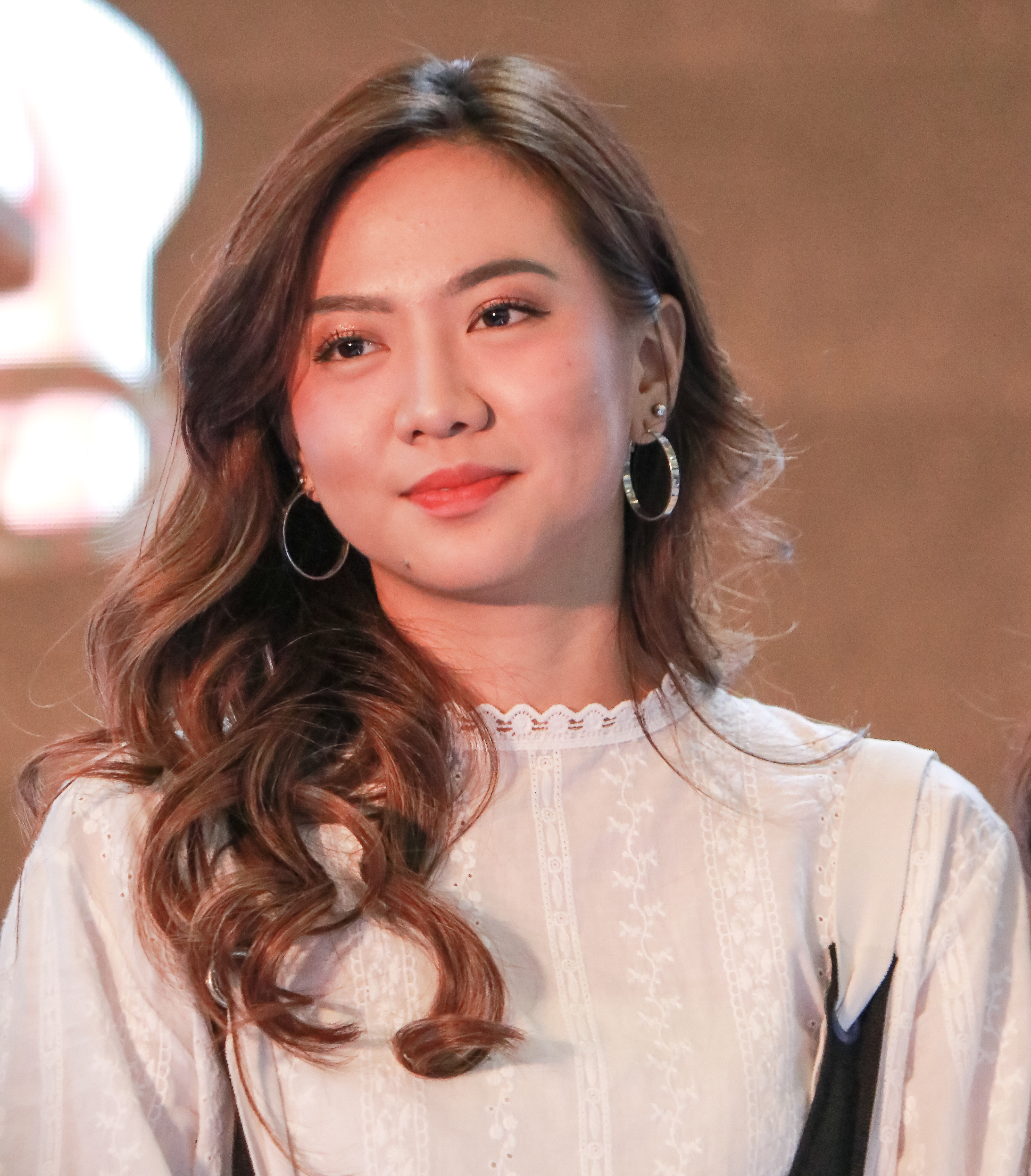 Shania Junianatha on 20 October 2019